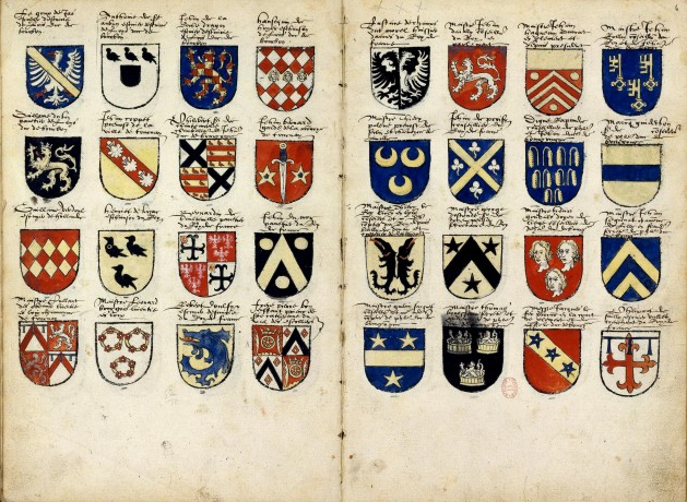 Folios 3 verso and 4 of the Cour amoureuse roll of arms copy compiled by Jacques Le Boucq circa 1560.